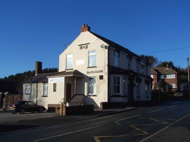 The Hazelslade